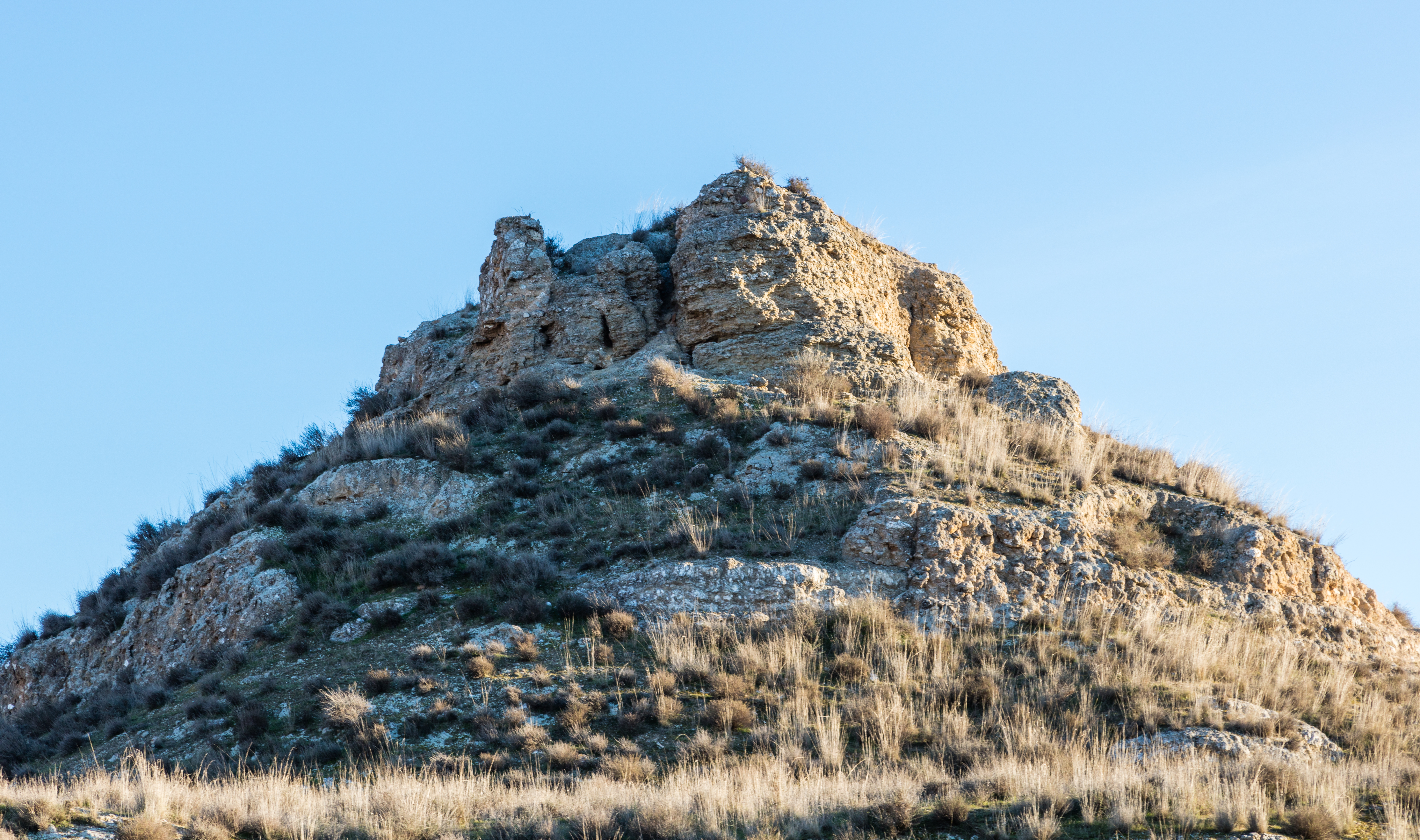 Castle of Turbena, Bardallur, Saragossa, Spain